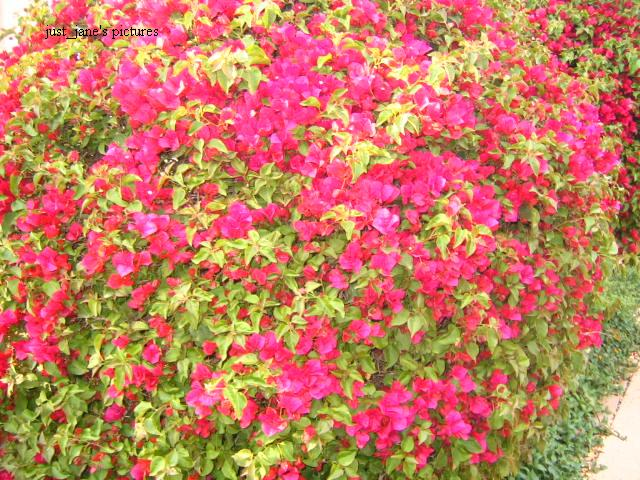 Bouganvillea in bloom